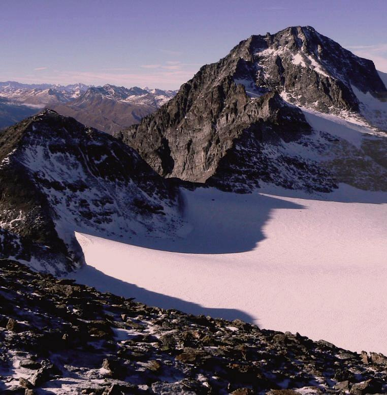 Rheinwaldhorn, Ticino-Graubünden